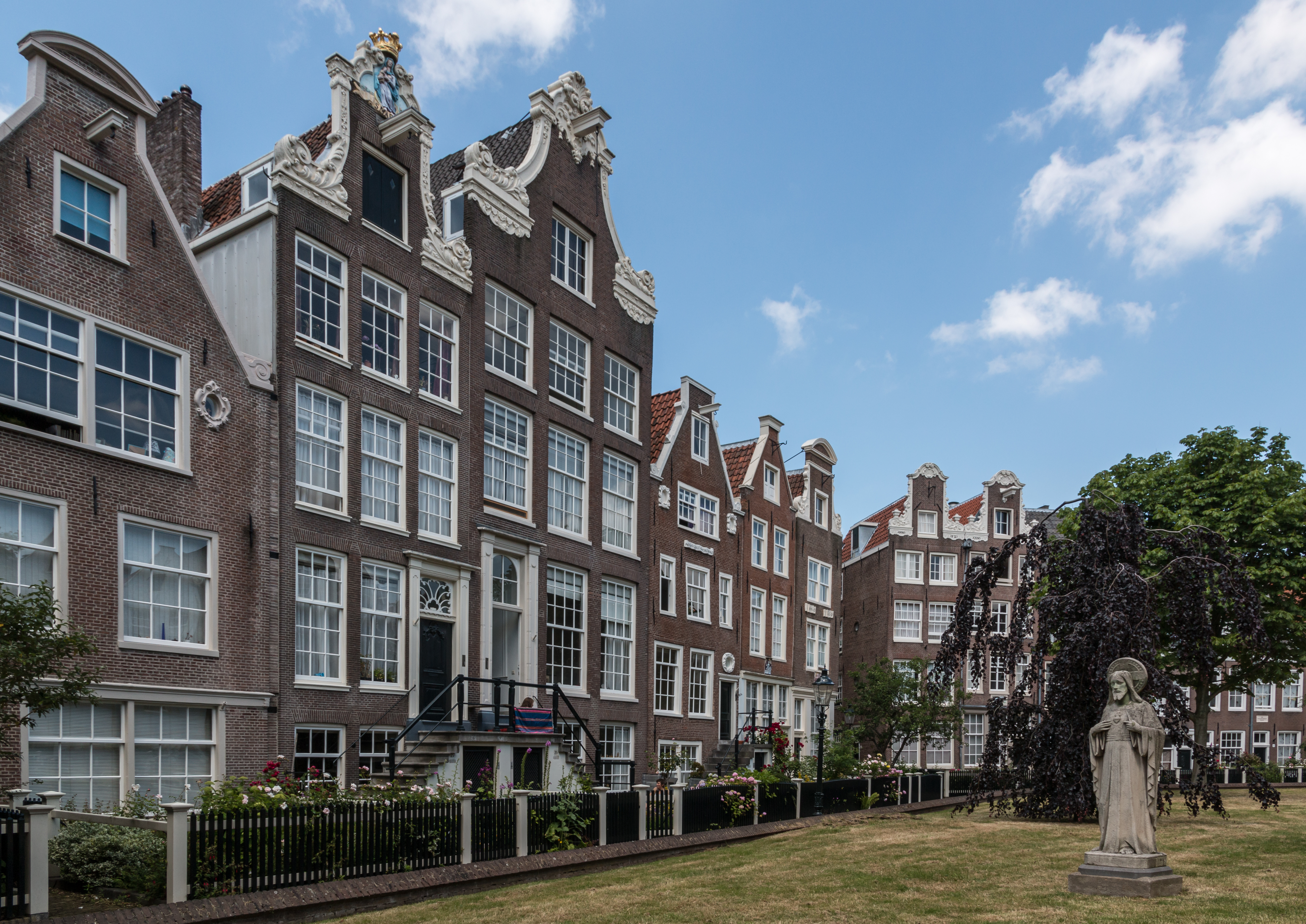 Begijnhof in Amsterdam, Netherlands This is an image of rijksmonument number 358 This is an image of rijksmonument number 362